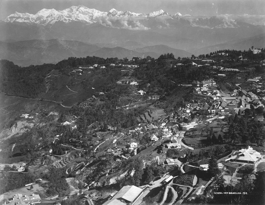 View showing the town of Darjeeling with the snow capped eastern Himalayas in the distance, from the Elgin Collection: 'Spring Tours 1894-98', taken by Bourne and Shepherd in the1880s. (British Library). Note: The writing on the photograph reads: "General View, Darjeeling, 1912".